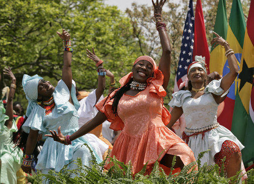 Members from the Kankouran West African Dance Company performs during a ceremony marking Malaria Awareness Day Wednesday, April 25, 2007, in the Rose Garden, White House.